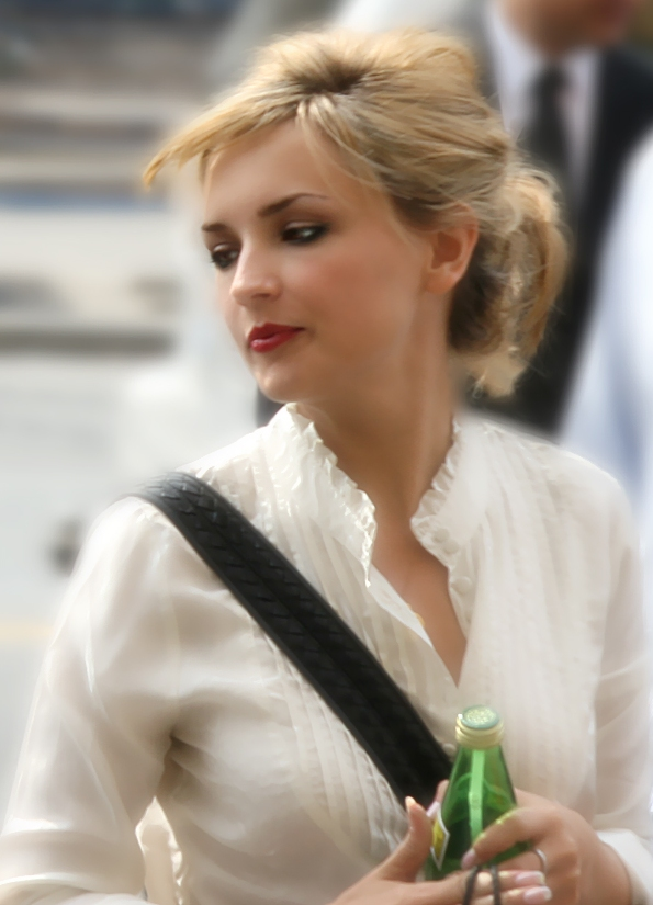 Rachael Leigh Cook at the 2007 Toronto International Film Festival